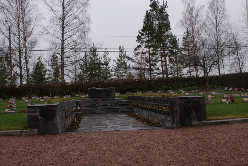 Military cemetary in Lapinjärvi, Finland